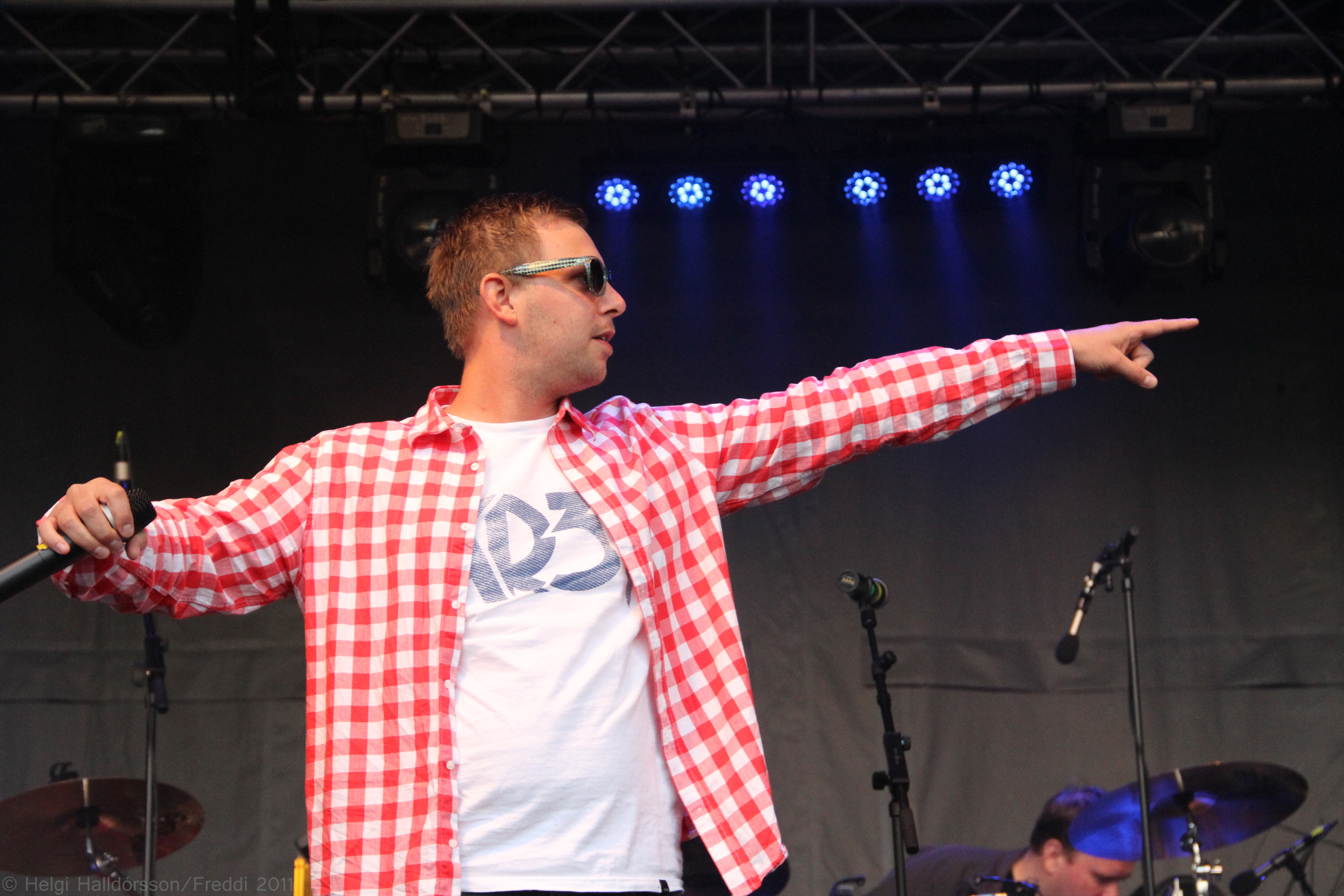 Steindi JR has put his mark on the role made ​​recently in Iceland. But what I find remarkable is how much influence Steindi JR has the music scene in Iceland. Hottest slagarinn in 2010 was "fine guy" and then struck Steindi JR throughout the summer with the song "Gold of man" as he pointed out with rapper XXXR.